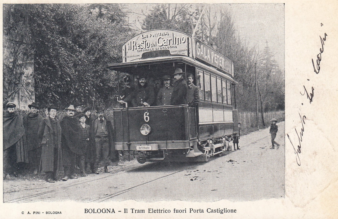 Bologna, Nobili tram Vehicle